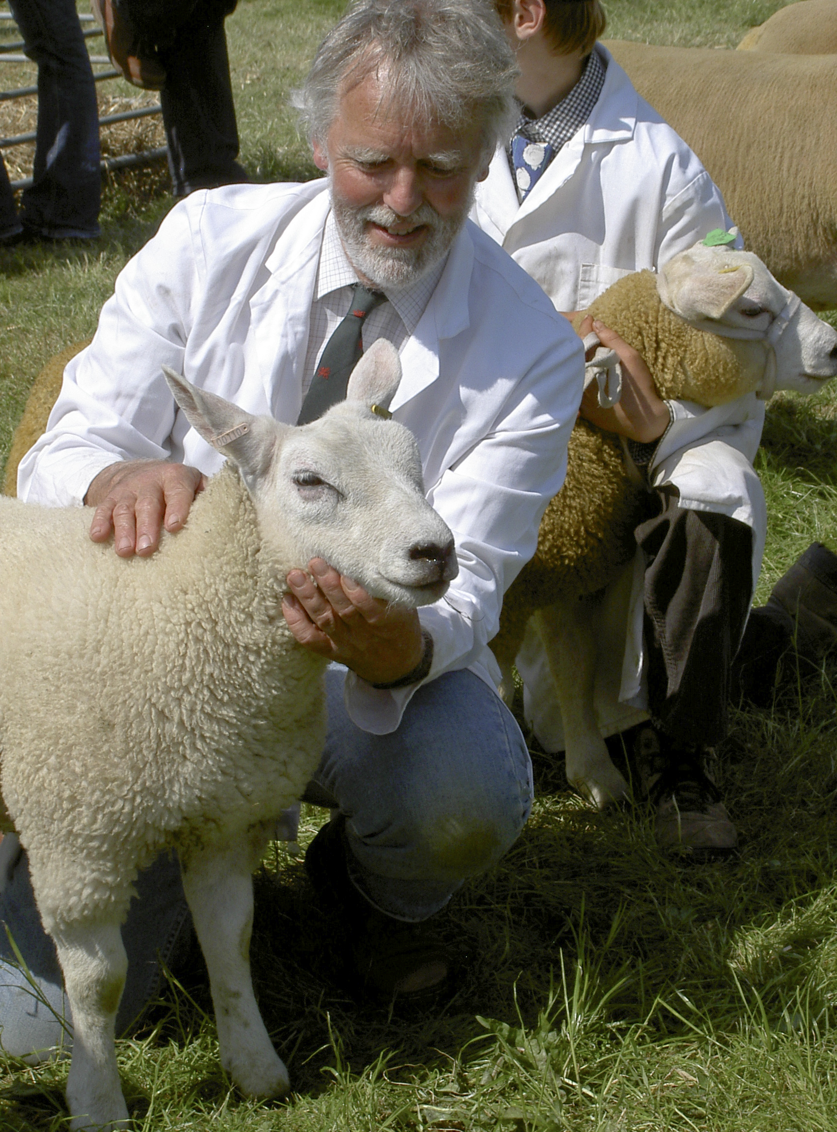 That's it - head up, shoulders back